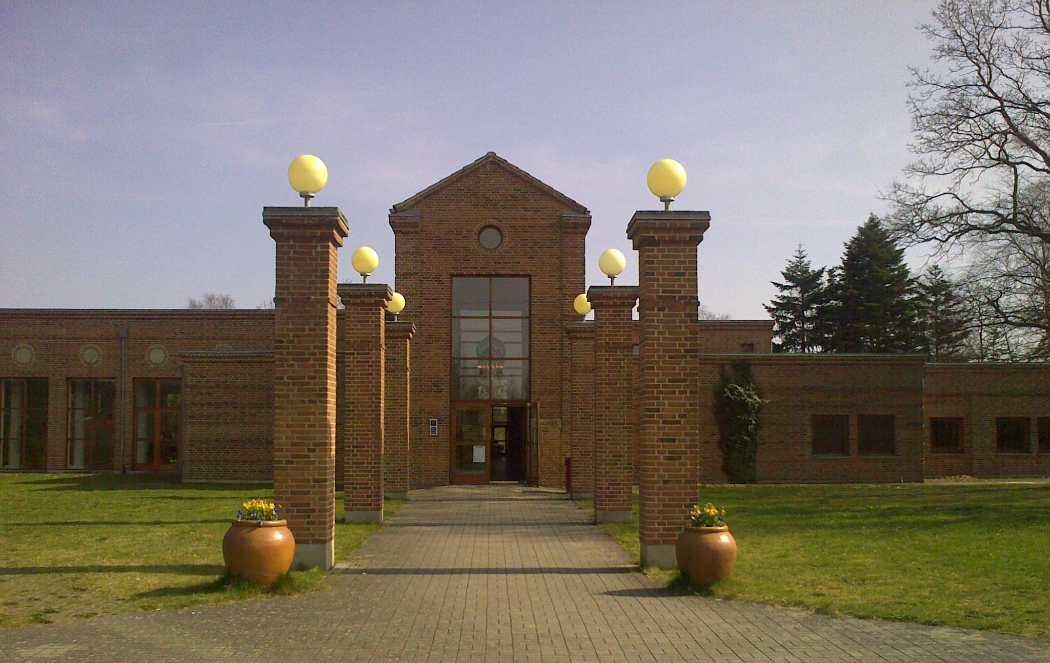 Entrance of the Danish Museum of Electricity